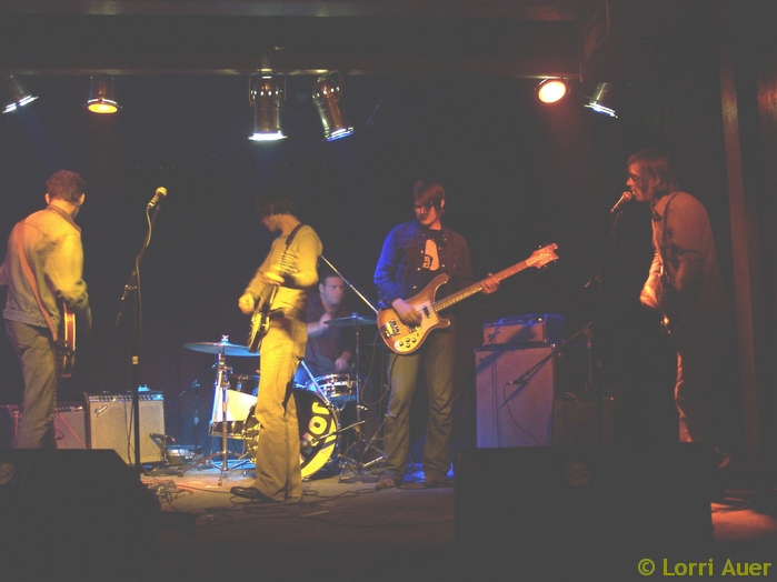 Brian Jonestown Massacre 10.21.04 @ Mojo's